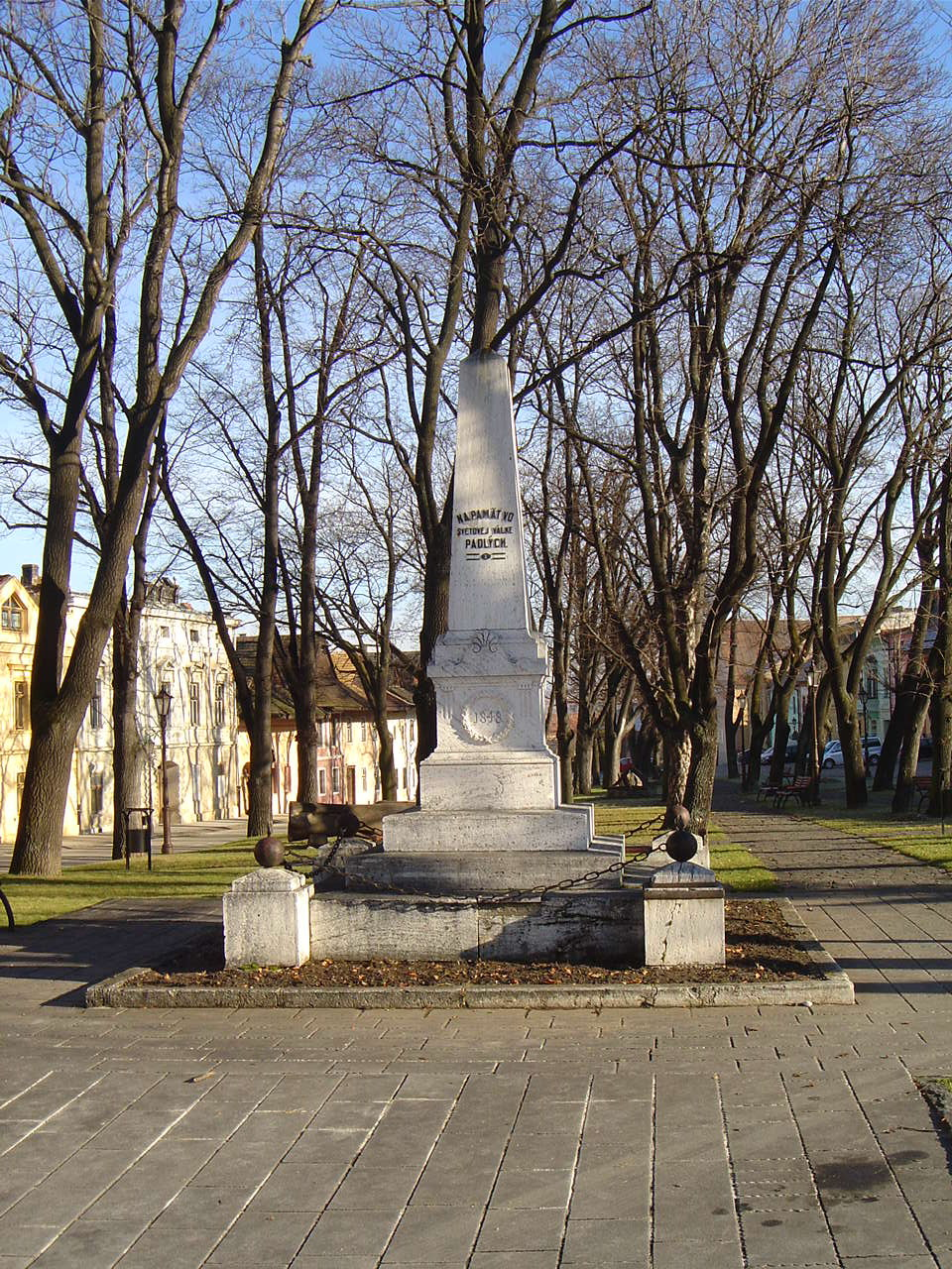 Monument in Spišská Sobota square